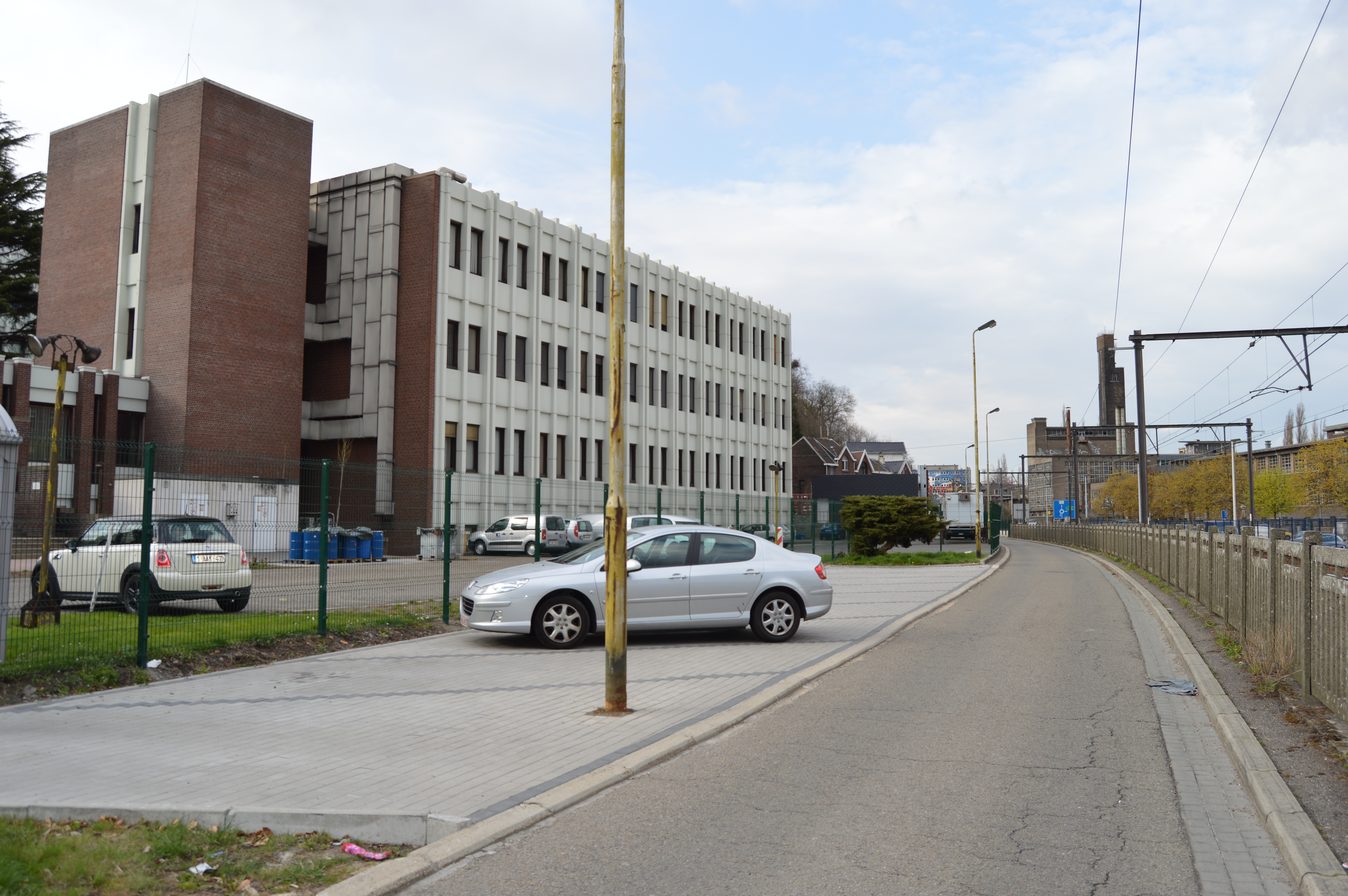 Ancient pit of the Val Benoit coal mine / ISSEP, in Liège, Belgium